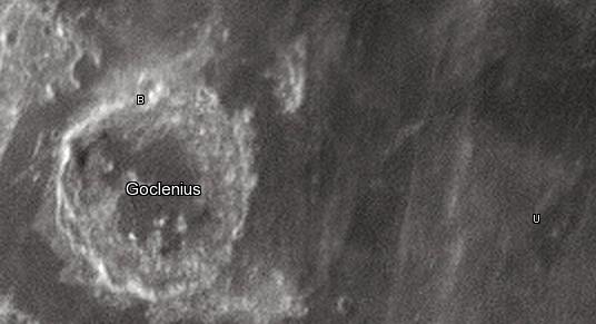 Goclenius lunar crater as seen from Earth with satellite craters labeled